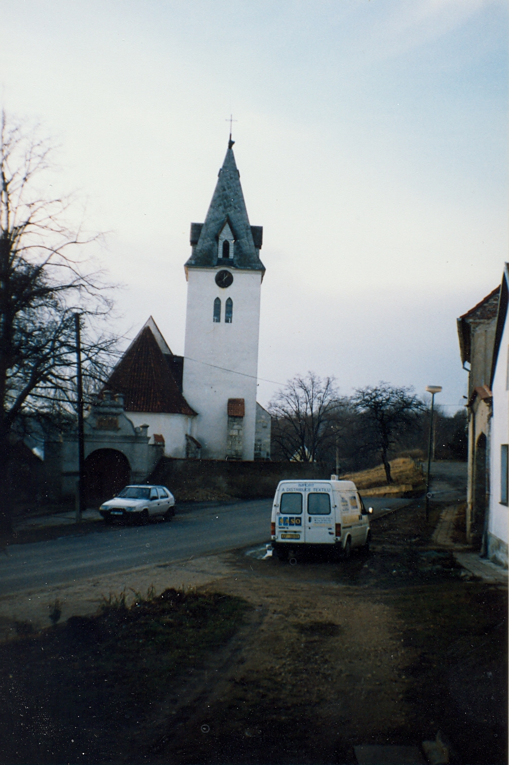 Church in Bitozeves